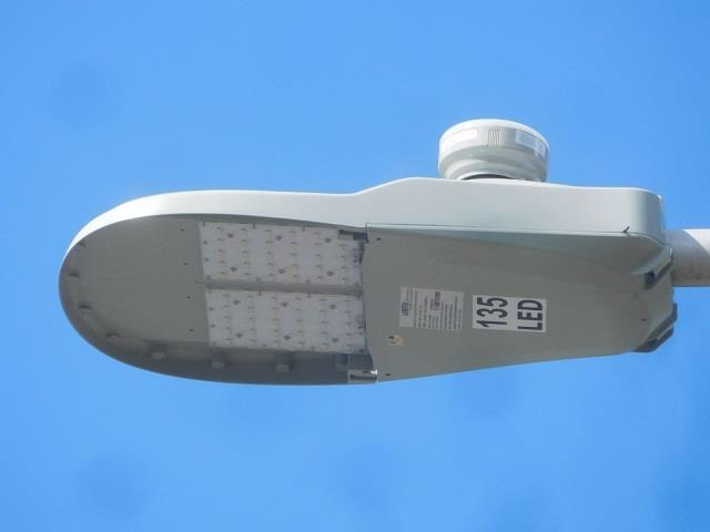 History of street lighting